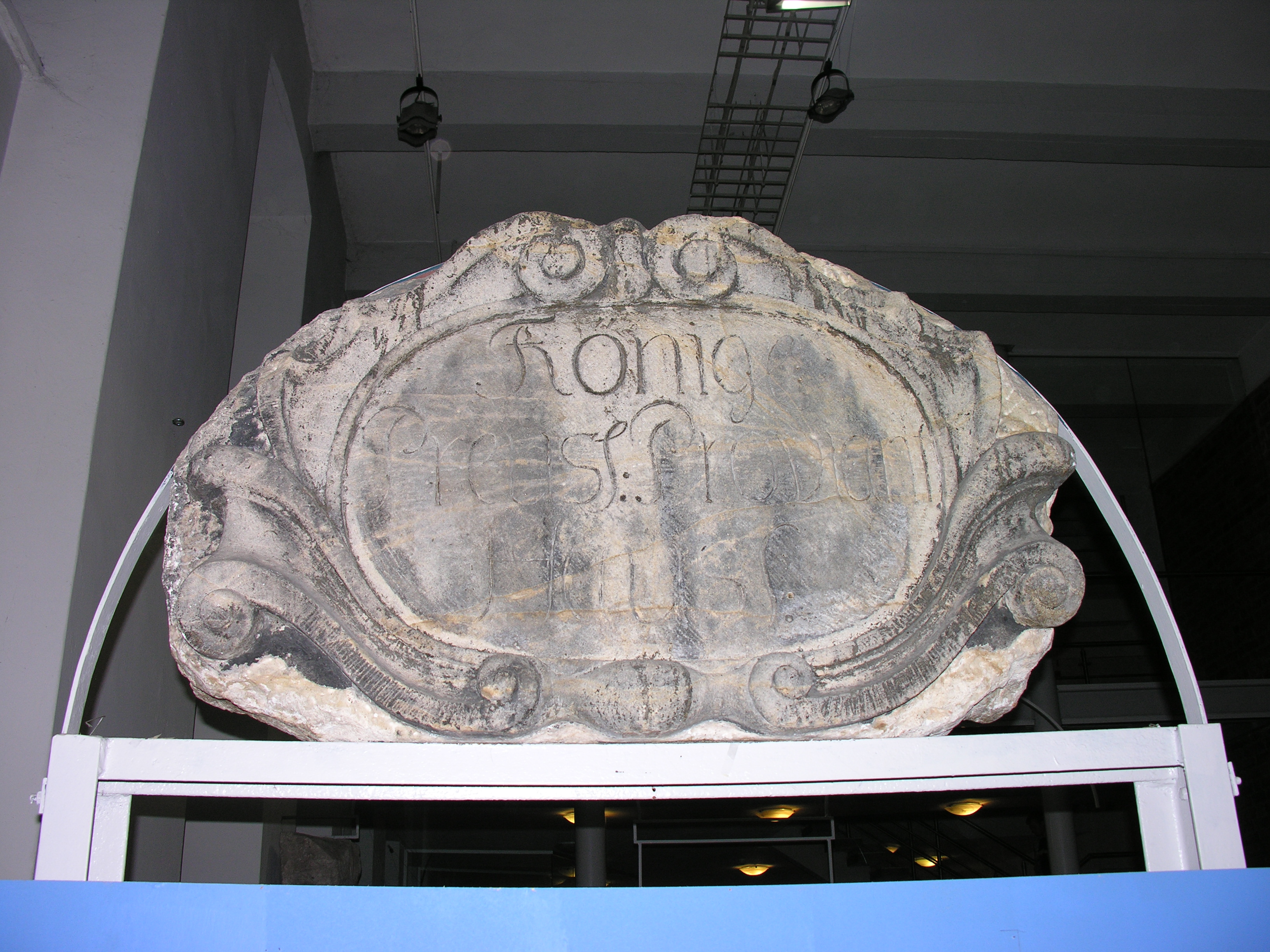 Rewers tympanonu fundacyjnego z opactwa na Ołbinie.